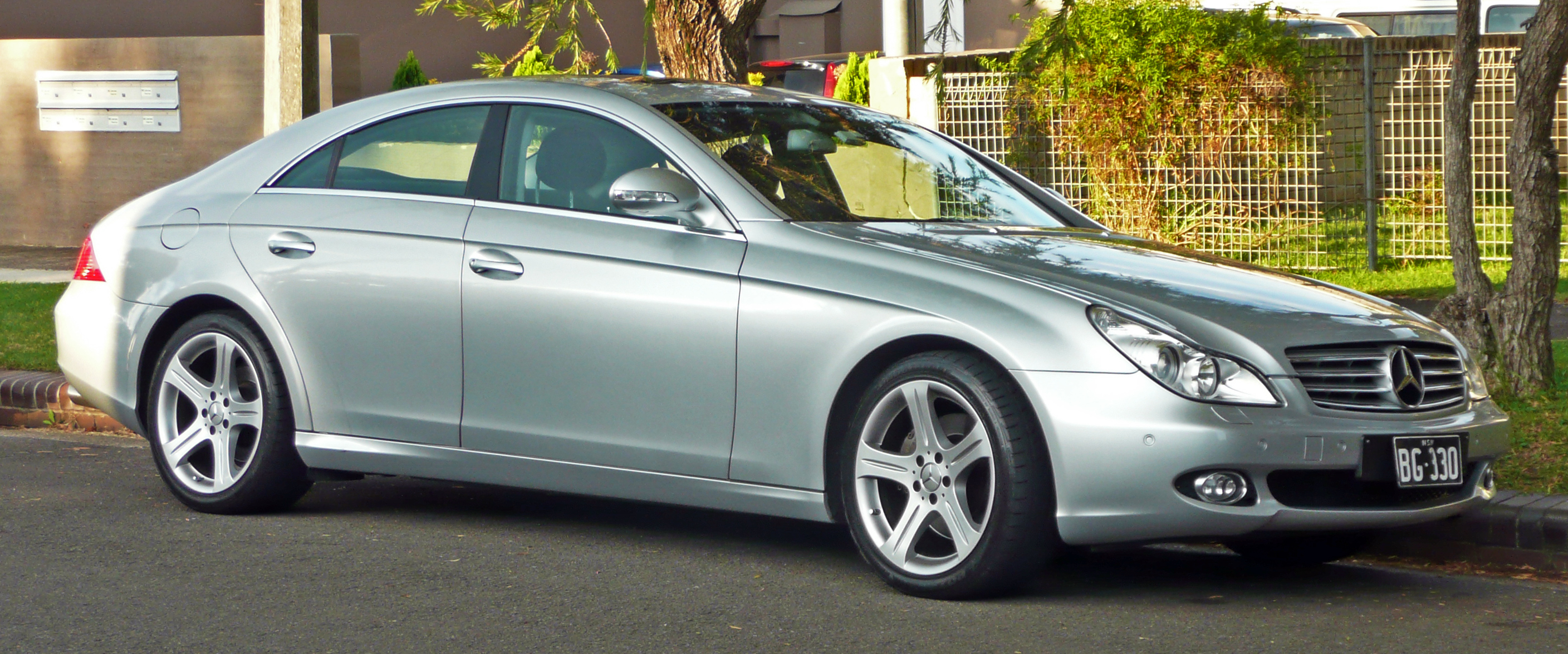 2008 Mercedes-Benz CLS 500 (C 219 MY08) sedan. Photographed in Sutherland, New South Wales, Australia.